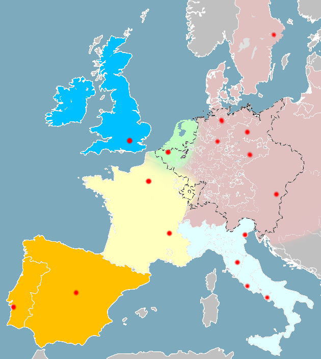 This image divides 18th century western Europe according to regional harpsichord building traditions: Green: Flemish Yellow: French Light blue: Italian Red: German Dark blue: English Orange: Iberian Cities that were hubs of harpsichord building are represented for each region (named from top to bottom. Note that building in the german and italian states was very decentralized): Sweden (red): Stockholm Britain (dark blue): London Flanders (green): Antwerpen France (yellow): Paris, Lyon Iberian peninsula (Orange): Madrid, Lisabon German states (red): Hamburg, Berlin, Hanover, Dresden, Vienna Italian states (light blue): Venice, Florence, Rome, Naples